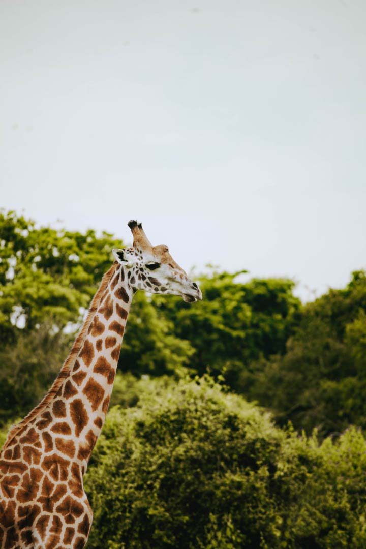 Girraffe in Akagera national park which situated in eastern province ofrwanda